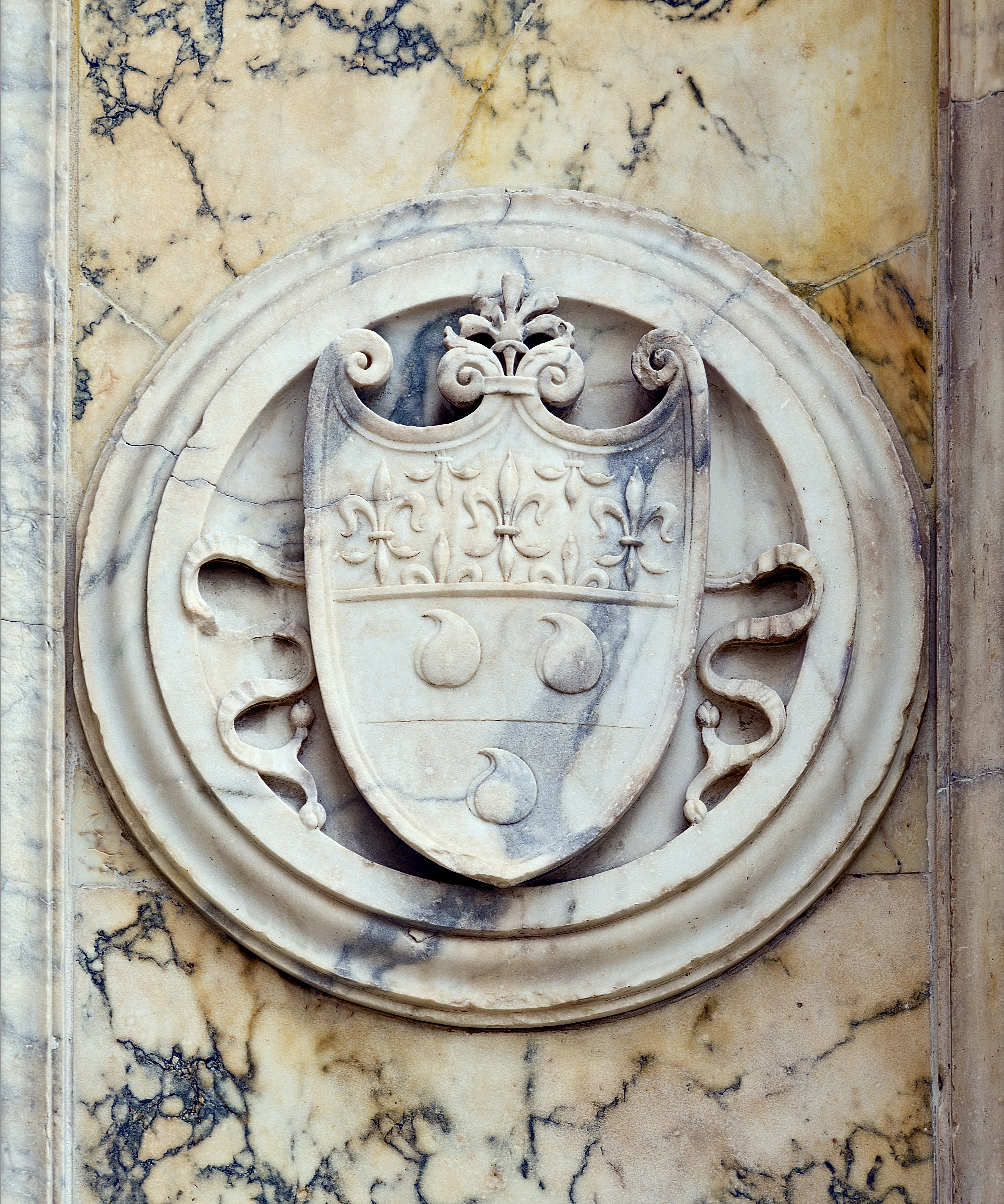 Coats of arms of the House of Colleoni, on the base of monument to Bartolomeo Colleoni campo di san Zanipolo Venice, by Alessandro Leopardi.